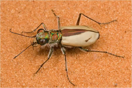 Cicindela albissima — Coral Pink Sand Dunes tiger beetle. In, and endemic to Category:Coral Pink Sand Dunes State Park, southwestern Utah.